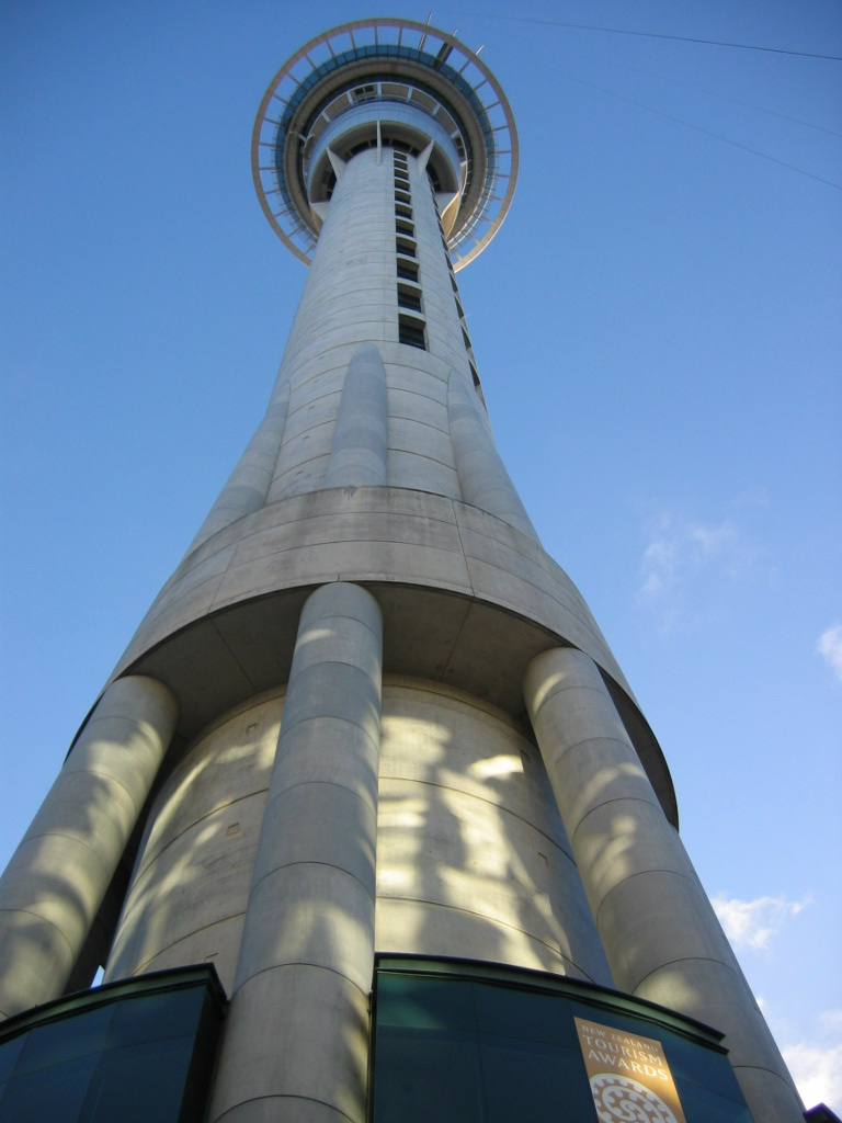 Looking up from the base of the Sky Tower in Auckland, New Zealand.